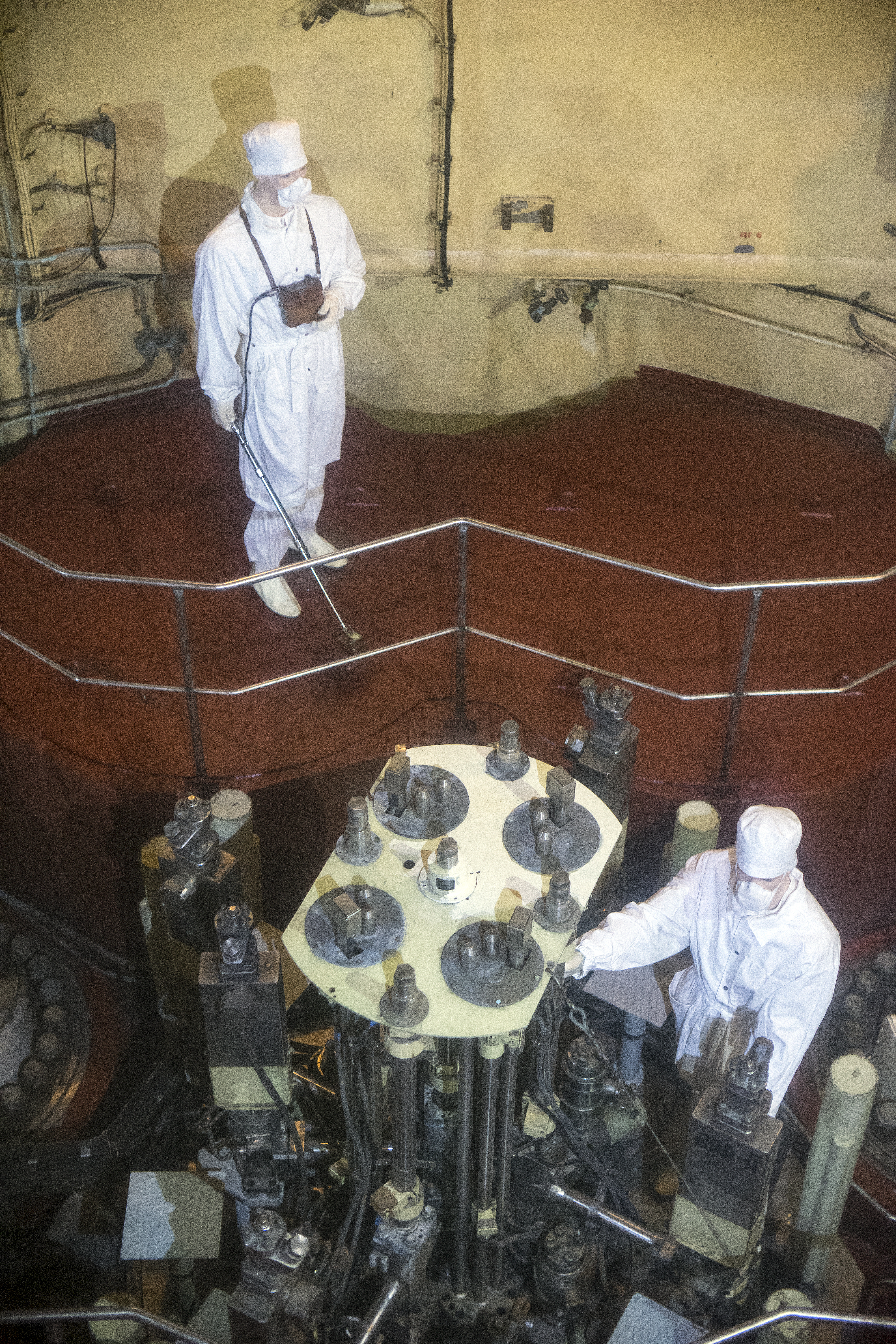 NORTH POLE North Pole Keep